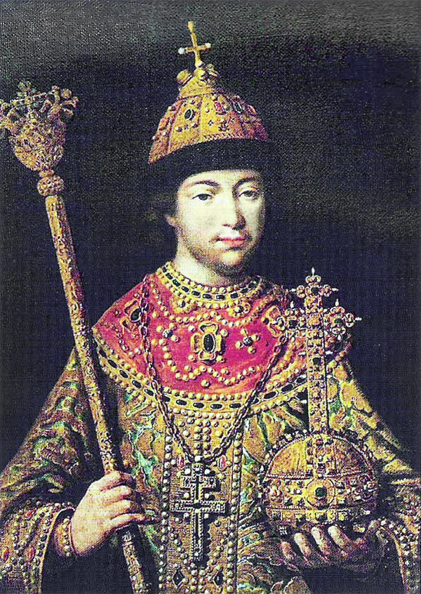 Tsar Mikhail, 1613 Портрет русского царя Михаила Федоровича.